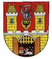 Coat of arms of New Town, Prague.